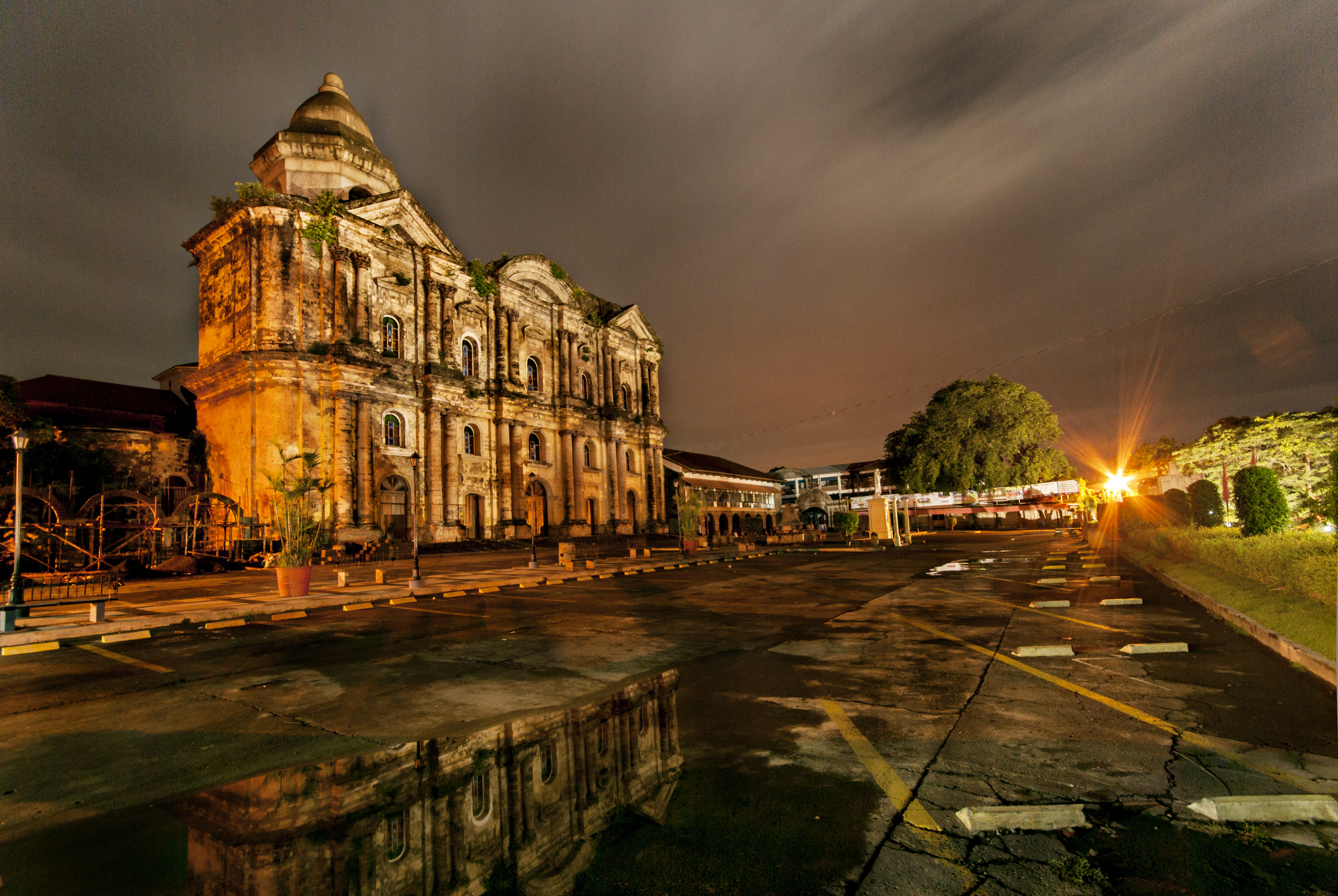 Basilica de San Martin de Tours is a Minor Basilica located in Taal, Batangas, Philippines